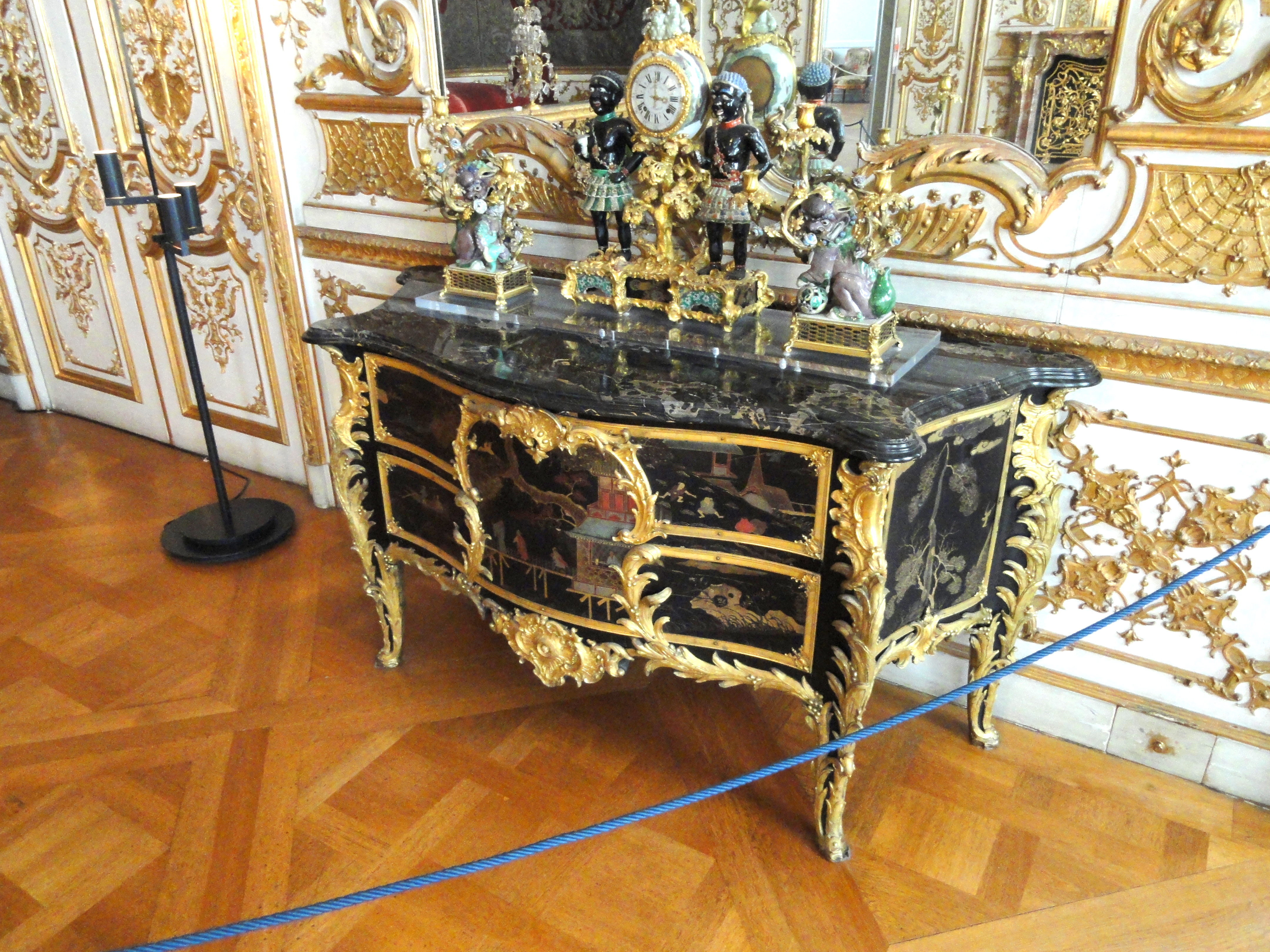 Commode by Bernard II van Risamburgh, 1730-1733. Furniture exhibited in the Münchner Residenz, Munich, Germany.